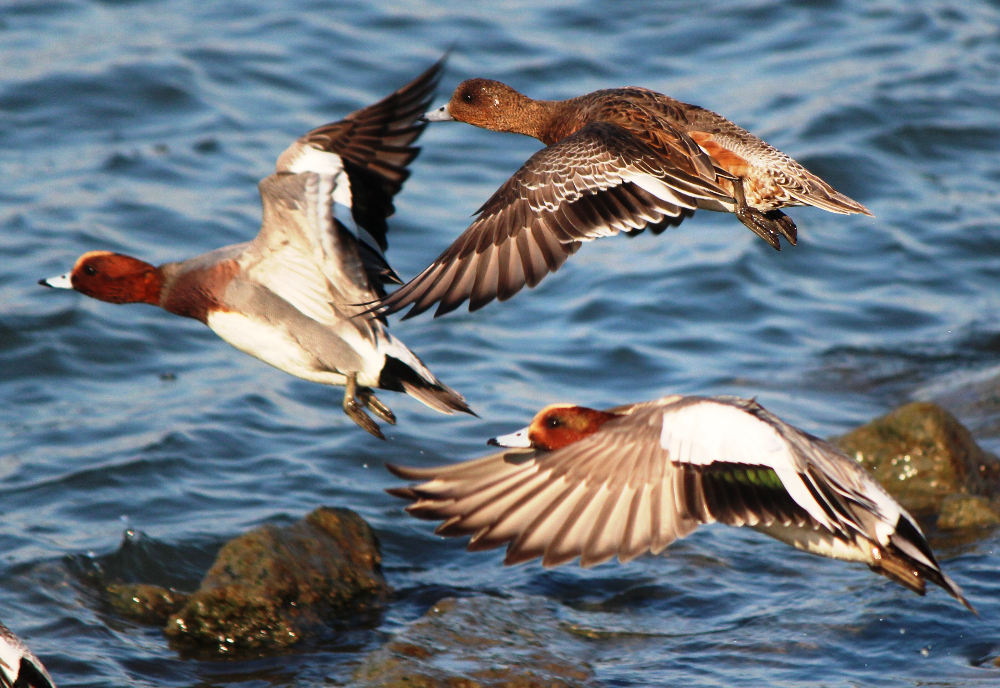 Eurasian Wigeon (Mareca penelope), in flight, in Fujimae-higata, Nagoya, Aichi prefecture, Japan.